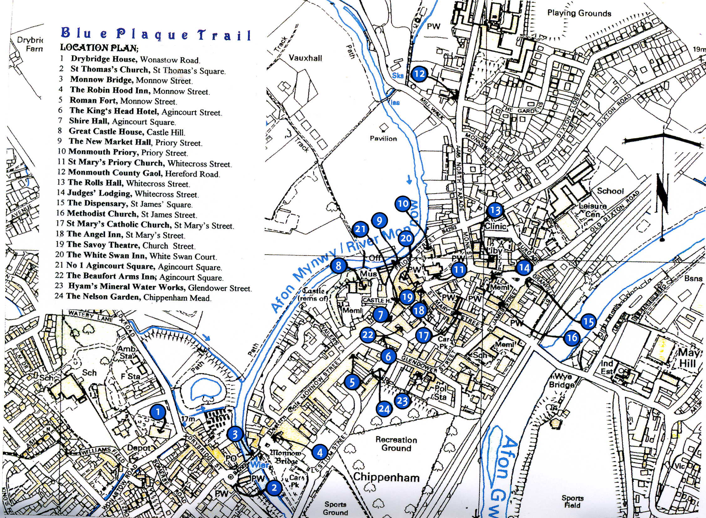 Guide to Heritage Trail in Monmouth